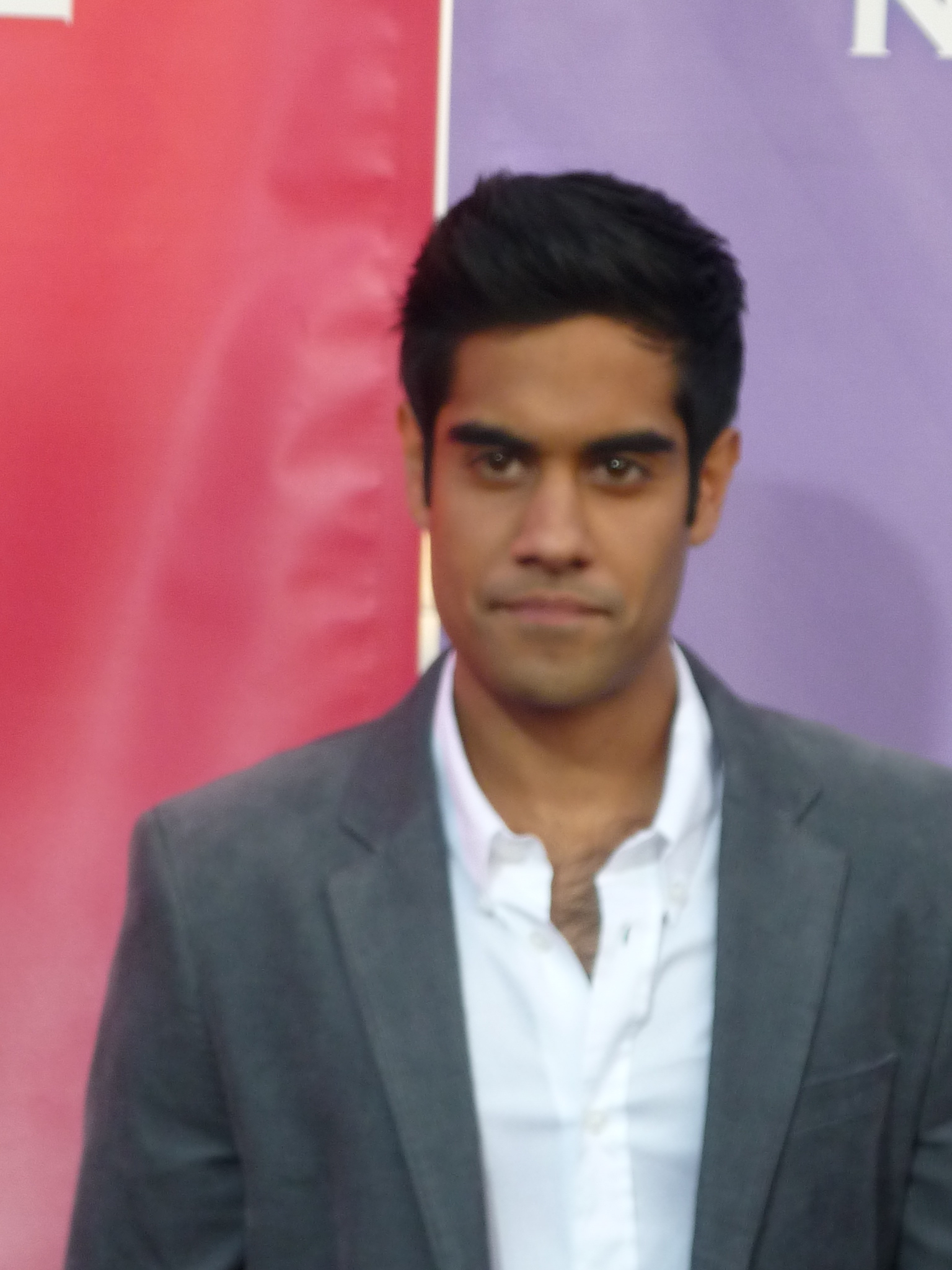 Sacha Dhawan at the TCA 2010